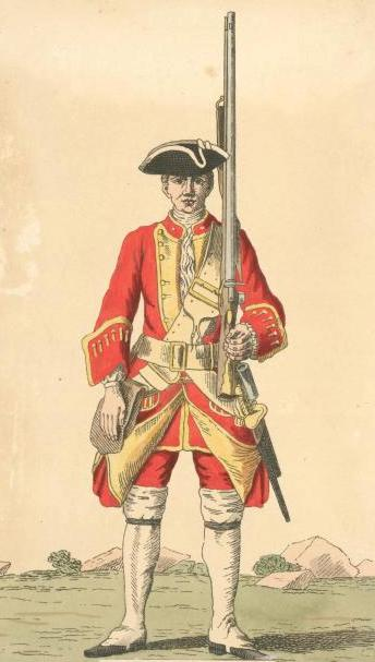 Soldier of the 37th regiment (1742)